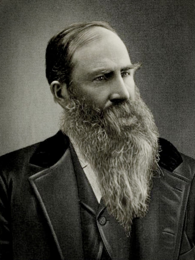 John A. O'Farrell (1823-1900) was an Irish American mining prospector and adventurer who helped to establish the city of Boise, Idaho. He is the namesake of two properties listed on the National Register of Historic Places, the John A. O'Farrell Cabin and the John A. O'Farrell House.